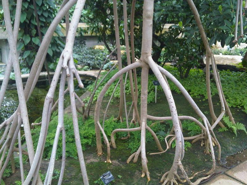 Red mangrove (Rhizophora mangle) roots in Kew Gardens, England.